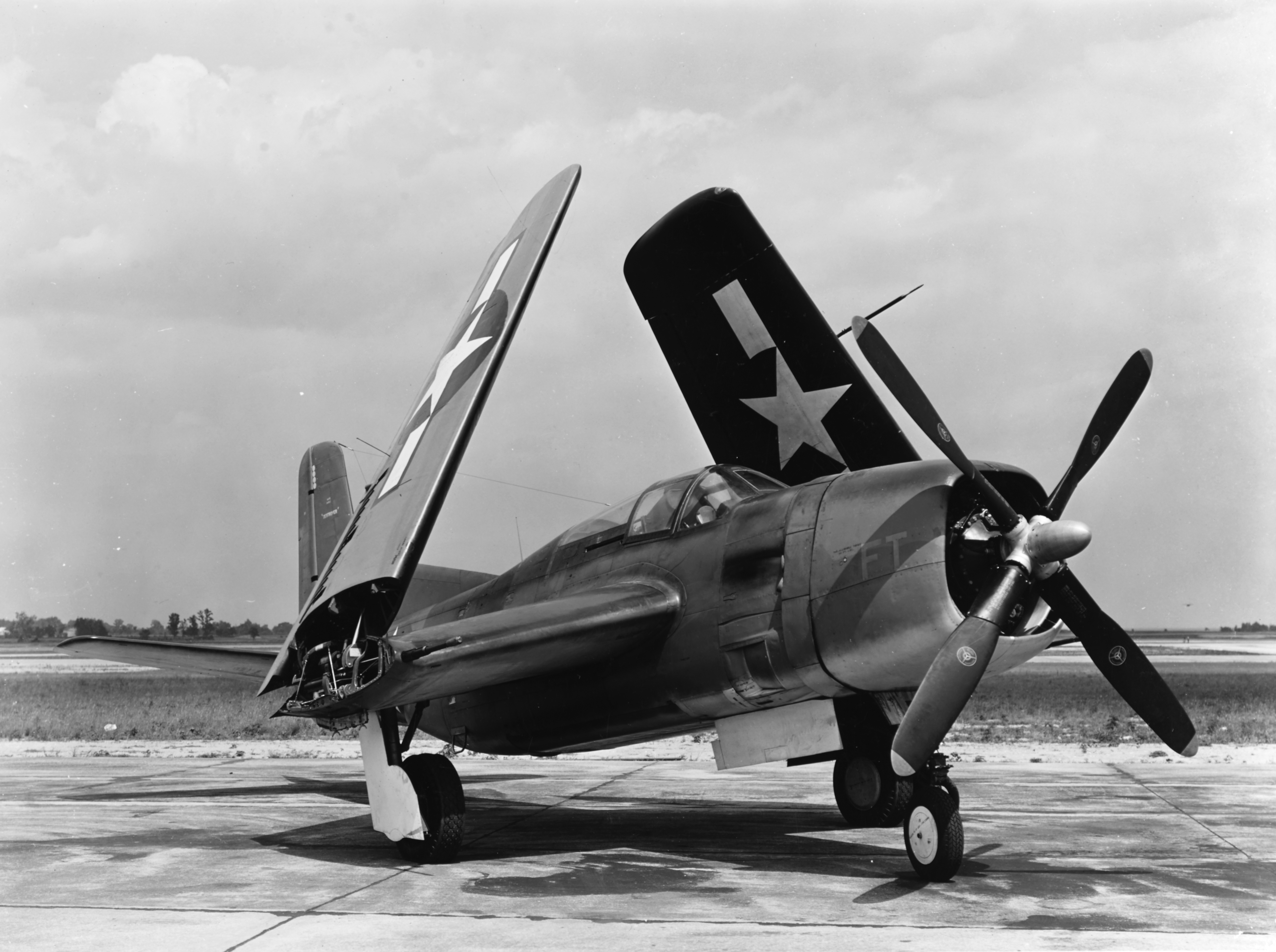 A U.S. Navy Douglas BTD-1 Destroyer (BuNo 04963) at the Naval Air Test Center Patuxent River, Maryland (USA), on 26 June 1944.